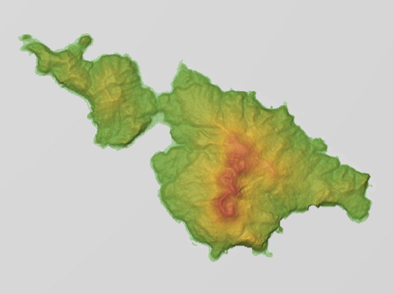 Kuchinoerabujima in Satsunan Islands, Japan.